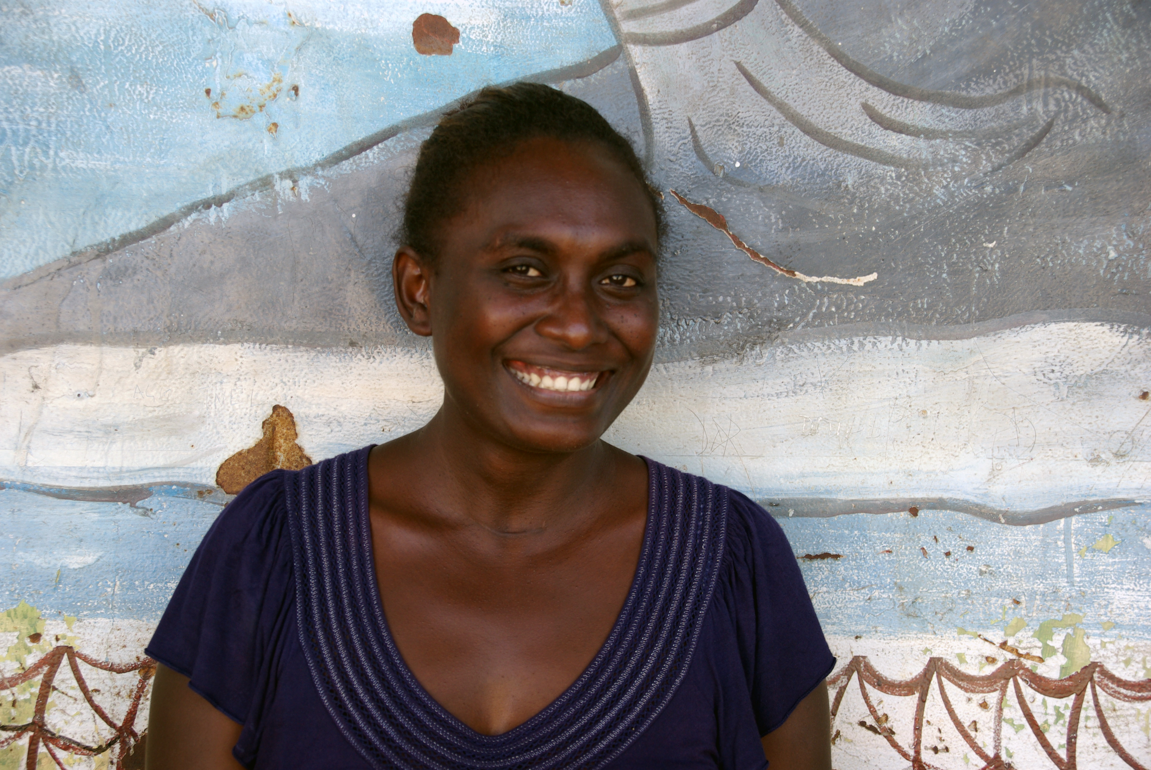 Portrait of Kristina Sogavare, Chair, Young Women in Parliament group. Photo taken by Irene Scott for AusAID. (13/2529)